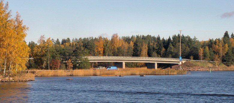 Bridge over Keihässalmi (Spjutsundet) strait in Pyhtää, Finland